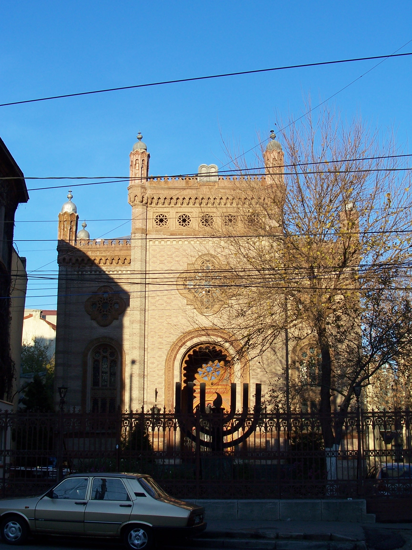 Templul coral, a Jewish synagogue in Bucharest